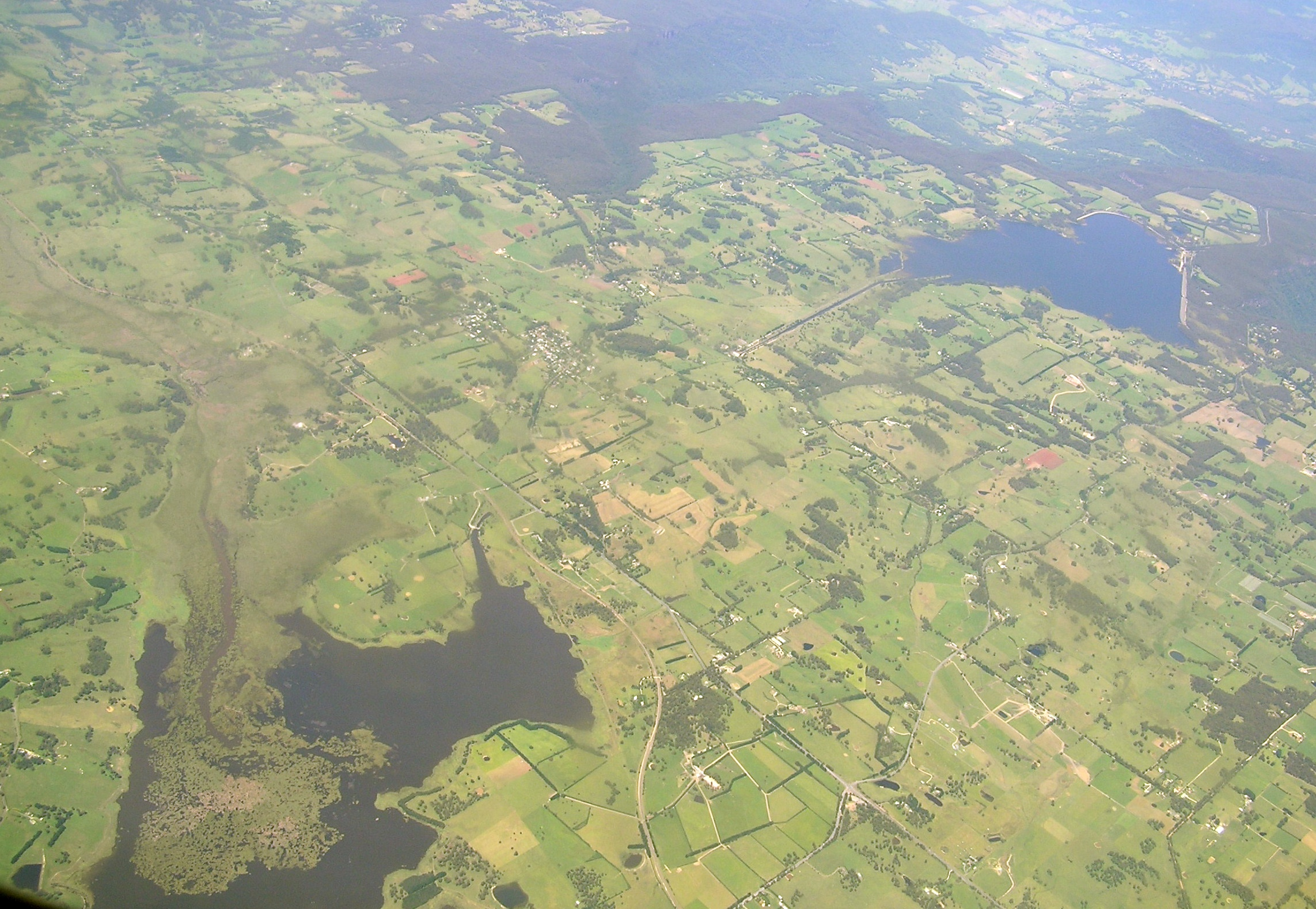 Aerial photo of land from Wingecarribee Swamp to Fitzroy Reservoir